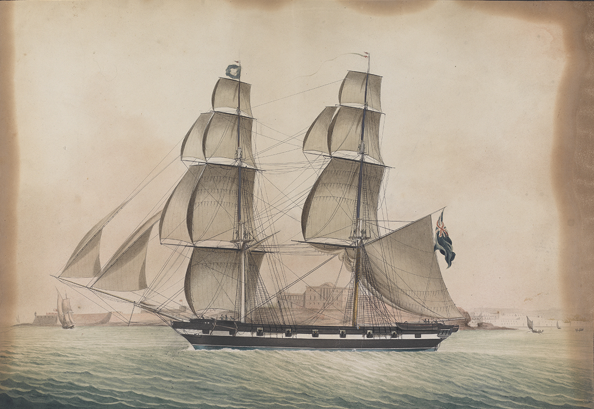 H.M. Sloop Weazle going out of Malta, by Nicholas Cammillieri PAH9216 Weazle 1805 [HMS] Materialsː watercolour Measurementsː Sheet: 460 x 578 mm